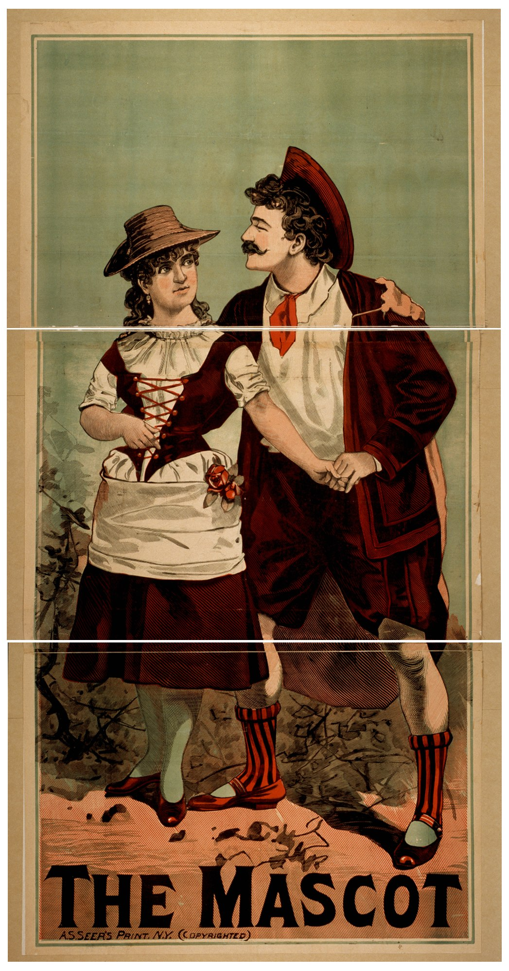 Title: The mascot Abstract/medium: 1 print : color woodcut ; sheet 210 x 105 cm. (poster format)